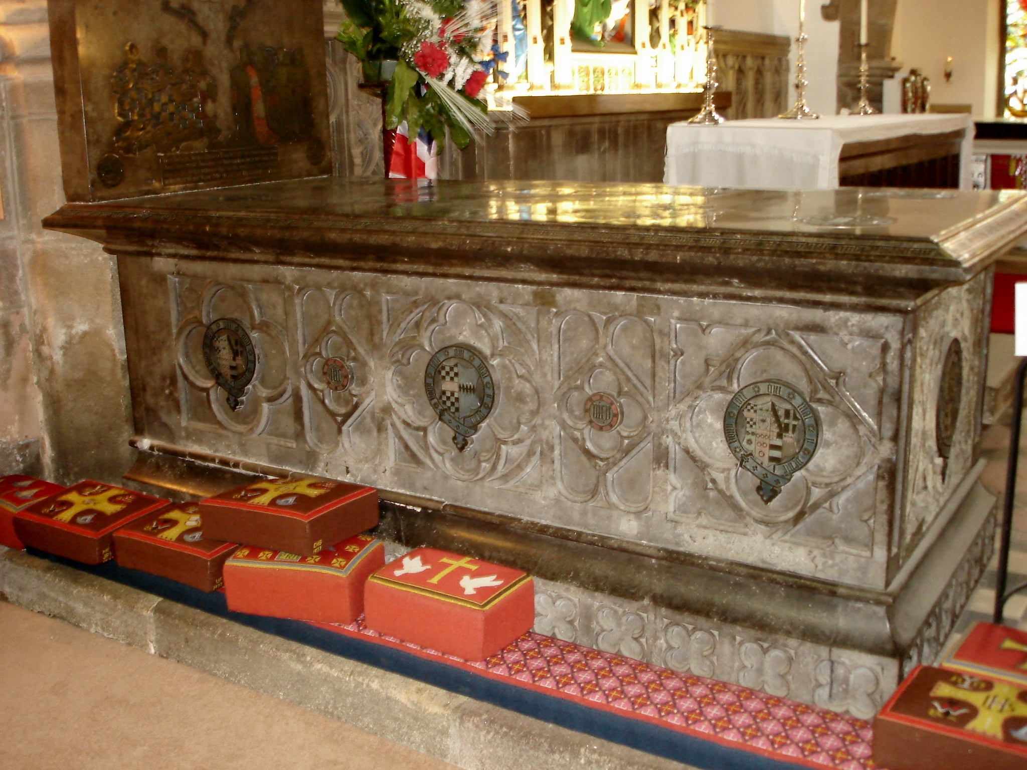 Tomb of Sir Henry Clifford, 1st Earl of Cumberland in Holy Trinity church, Skipton, West Yorkshire